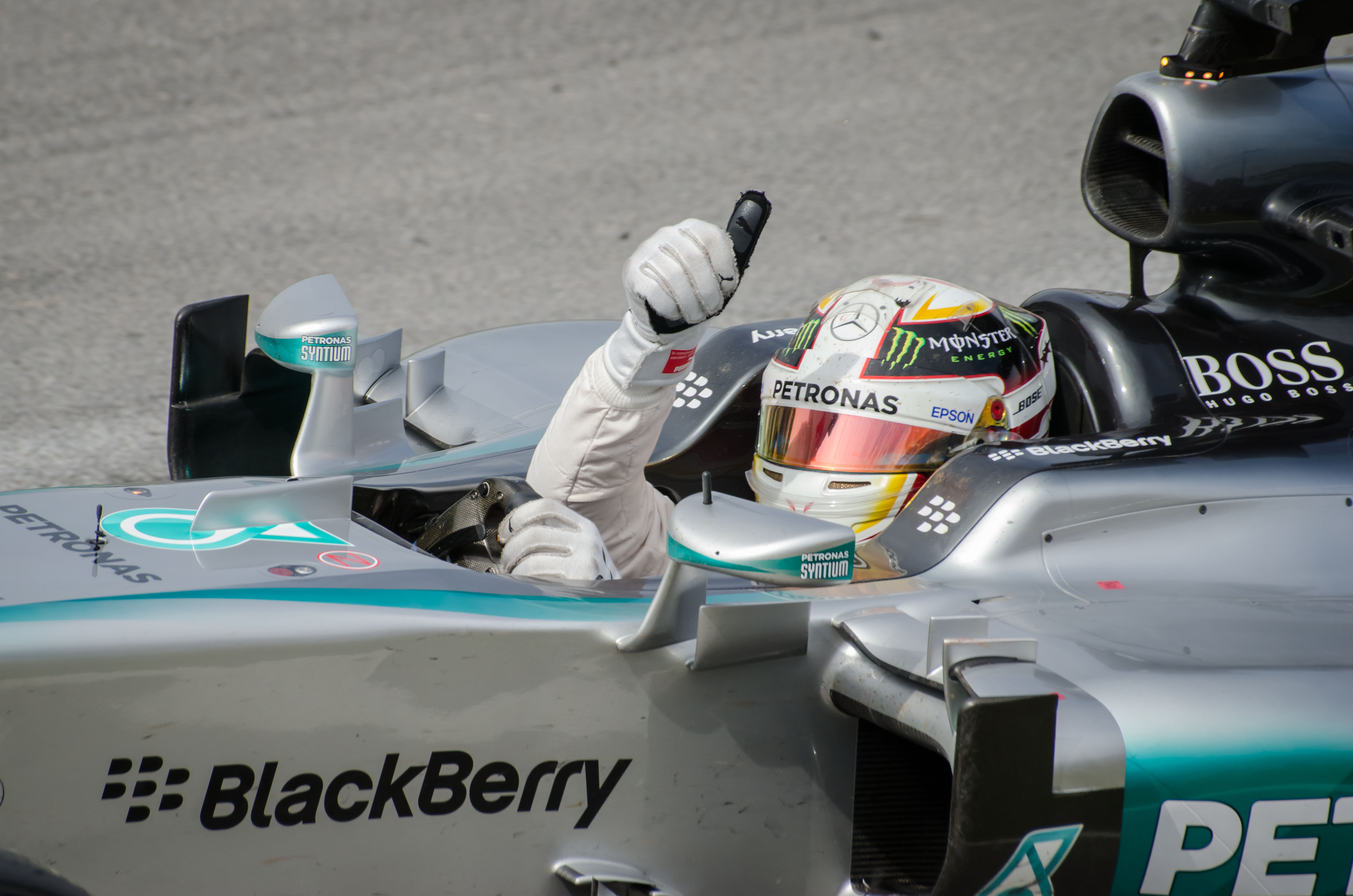 Lewis Hamilton celebrating victory at the 2015 Canadian Grand Prix